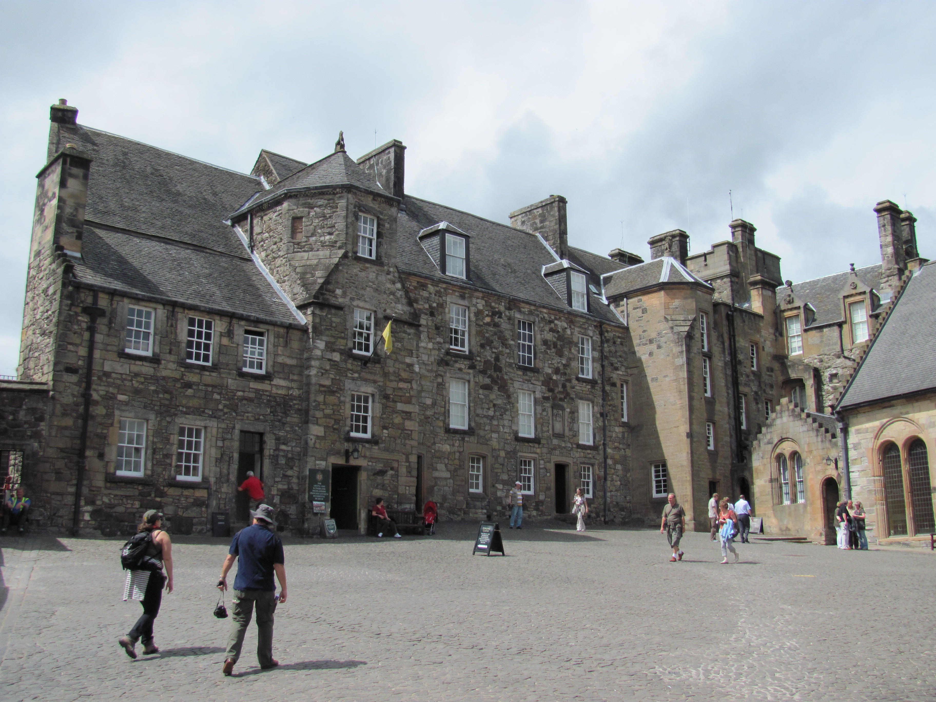 King's Old Building in Stirling Castle, Stirling, Scotland.